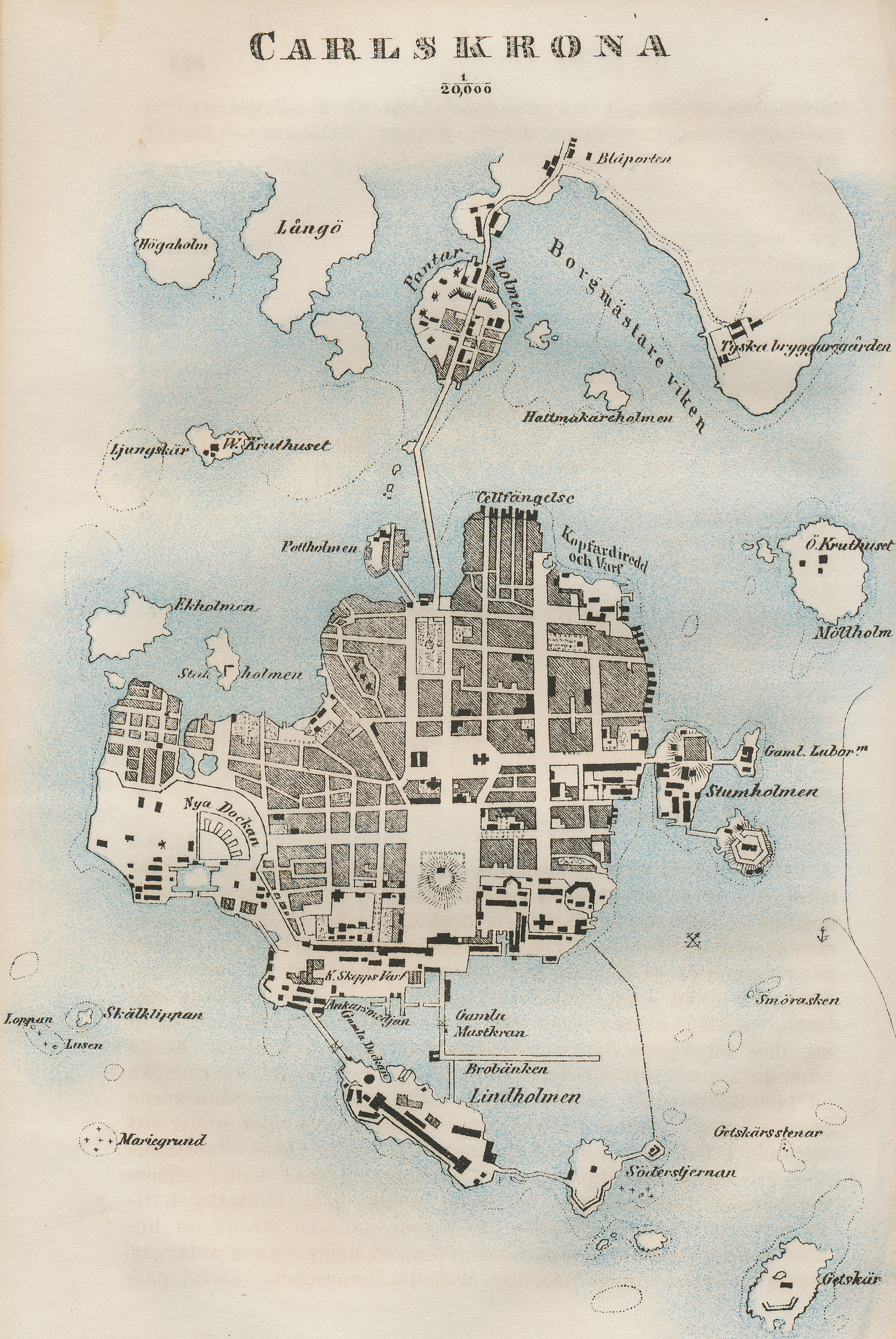 Map from about 1850 of the town of Karlskrona in Sweden.